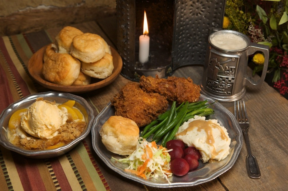 The best fried chicken in Virginia served in the 18th century style.